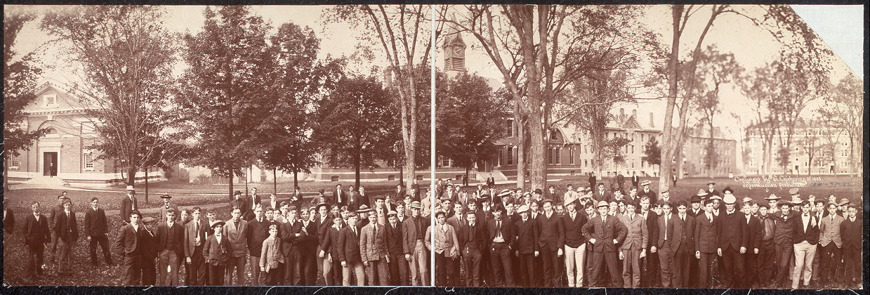 Panoramic view of campus of Phillips Exeter Academy, Exeter, New Hampshire, showing campus in the background. From the archives of The Library of Congress, Washington, D.C.